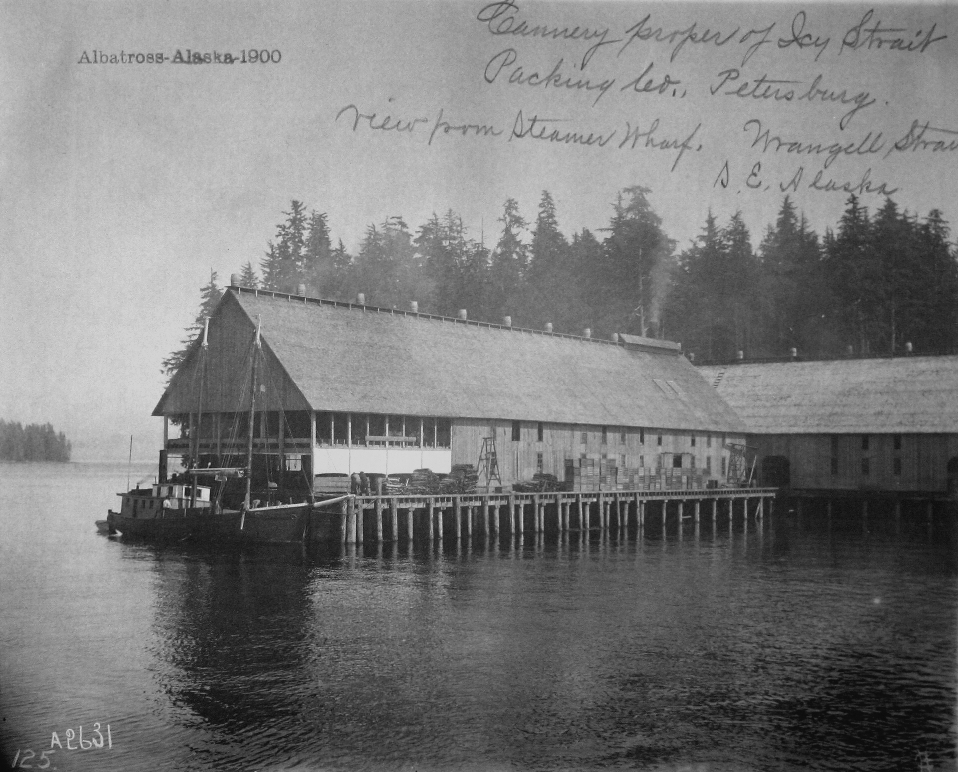 Cannery of Icy Strait Packing Co., Petersburg, Alaska view from steamer wharf, Wrangell Strait. Archival Photographer Stefan Claesson from cyanotype Credit: Gulf of Maine Cod Project, NOAA National Marine Sanctuaries; Courtesy of National Archives